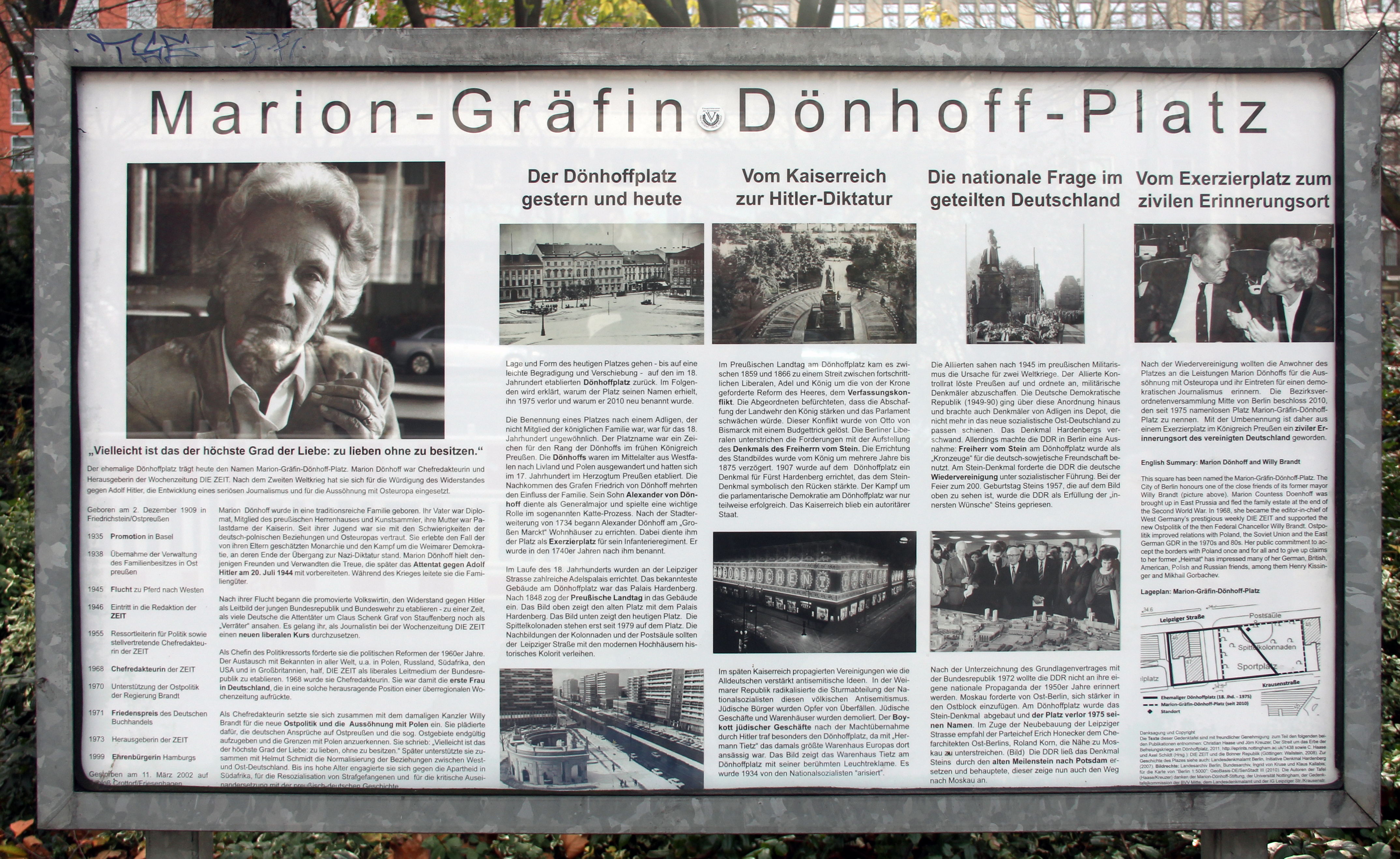 Memorial plaque, Marion Gräfin Dönhoff, Marion-Gräfin-Dönhoff-Platz, Berlin-Mitte, Deutschland